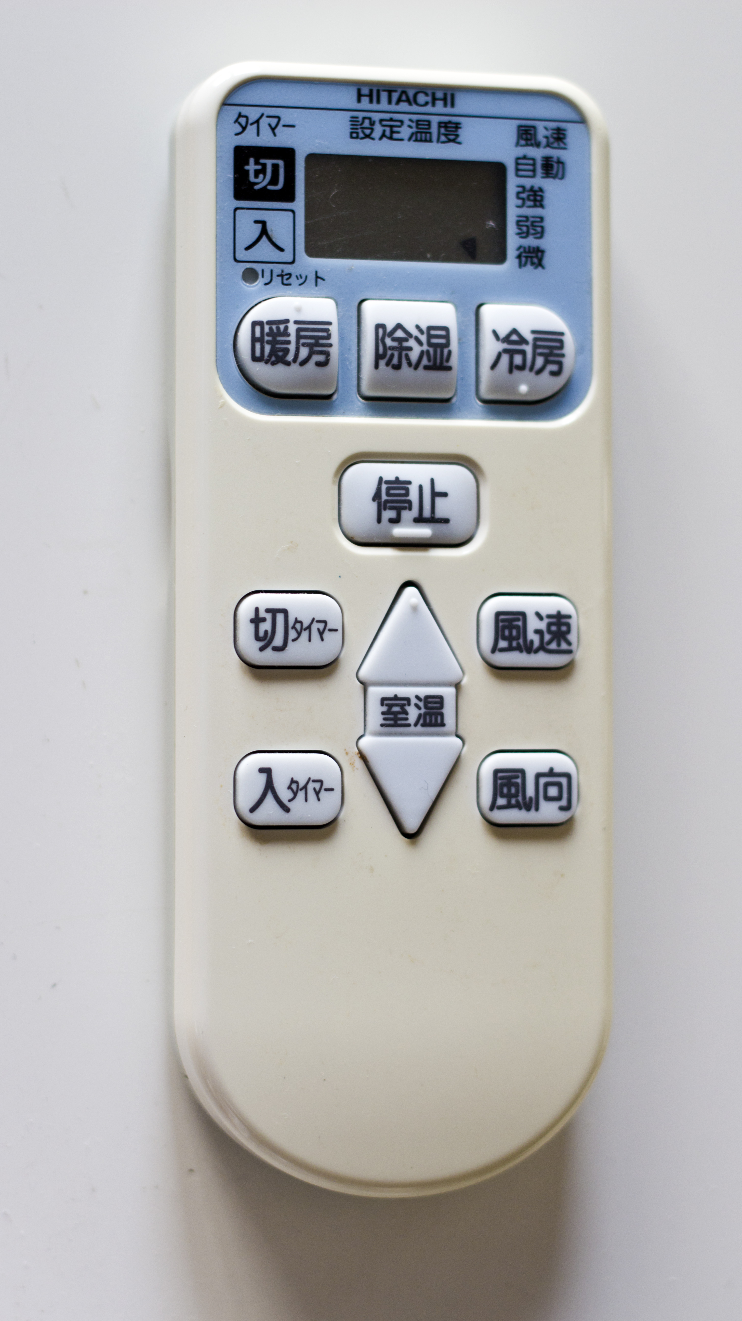 Remote control for Hitachi air conditioning unit in Japan.